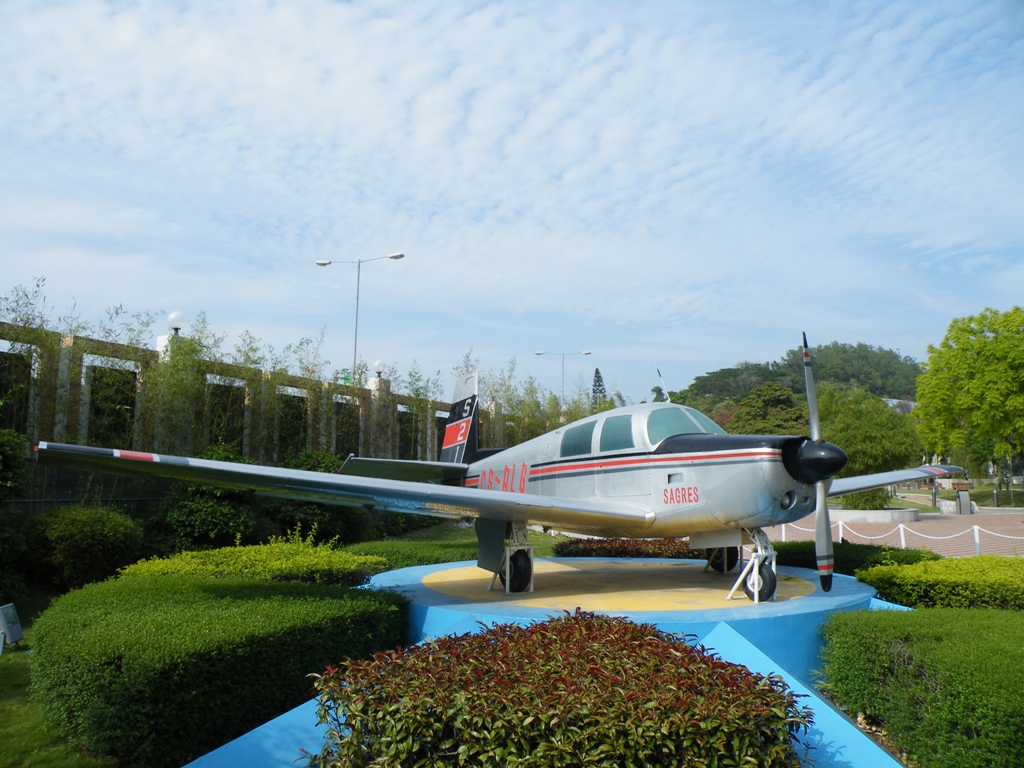 "Sagers" at Seac Pai Van Park